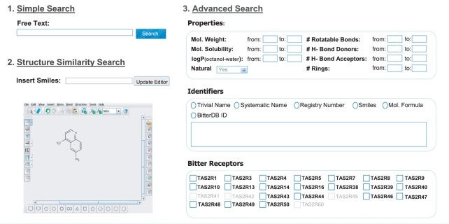 Search Examples of bitter compounds in BitterDB: three types of search possibilities.